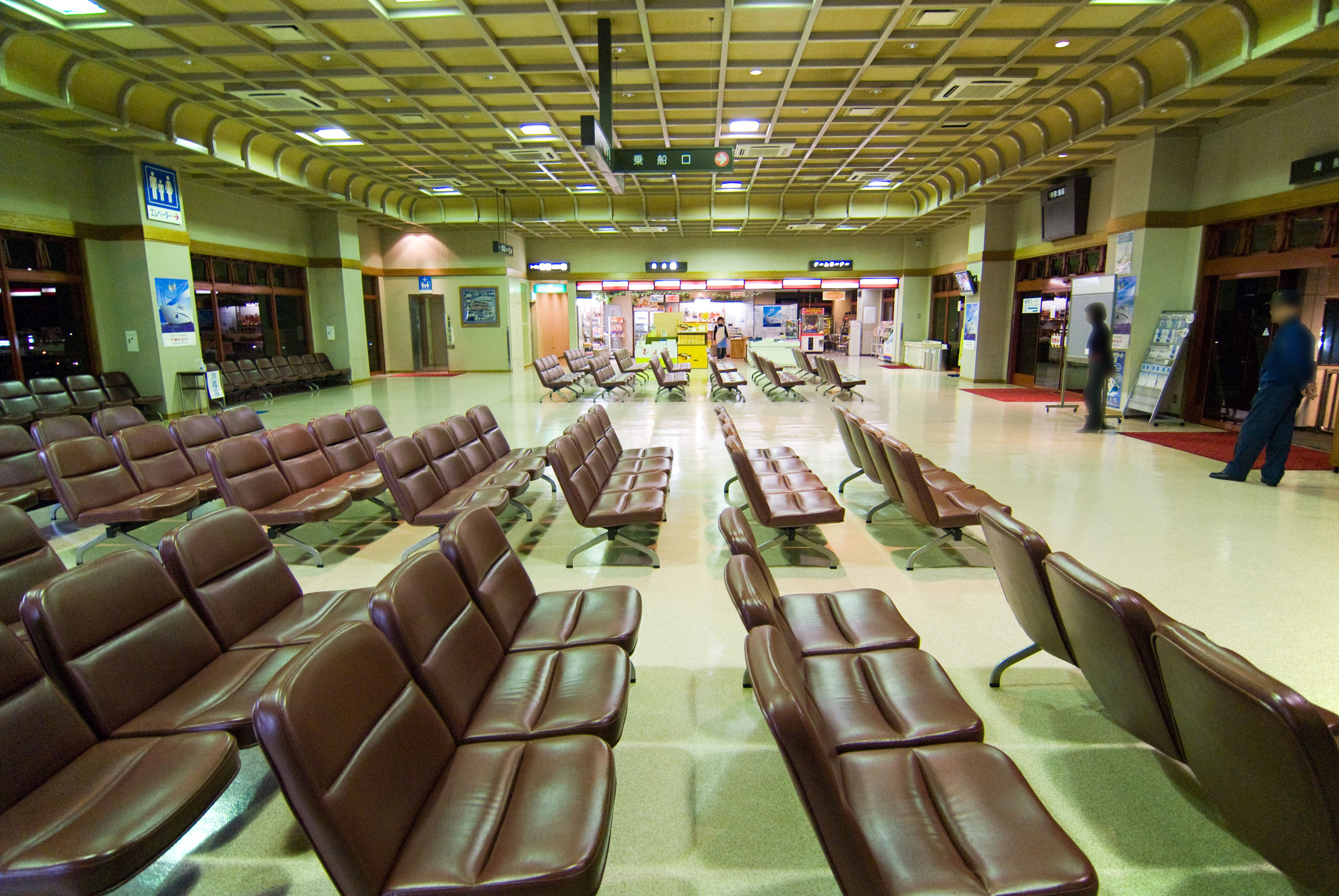 Ferry of Japan.Shin-moji ferry terminal, Moji-ku,Kitakyushu-shi,Fukuoka,Japan.